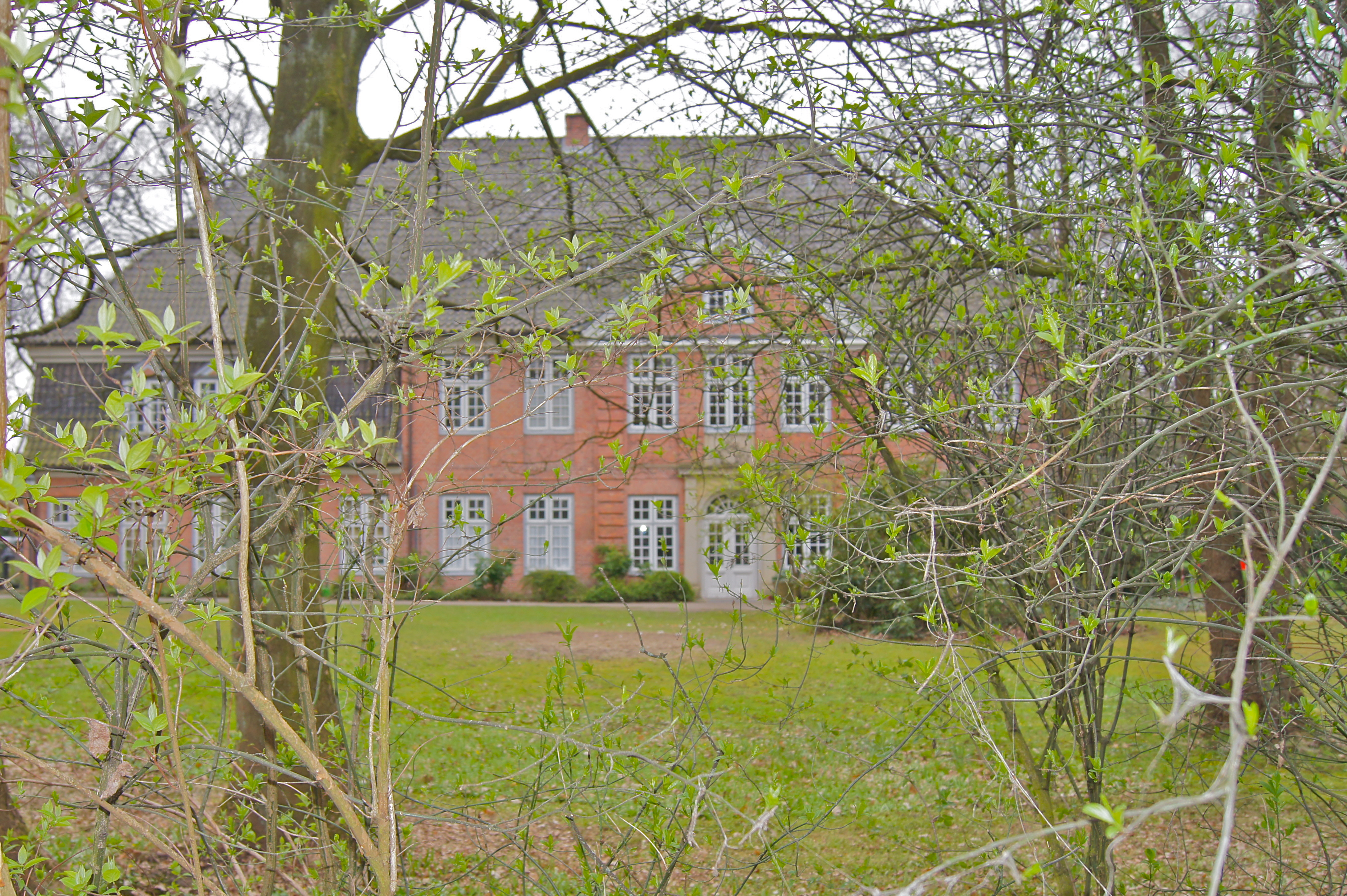 Hamburg (Groß Borstel), Germany: Stavenhagen House - northside